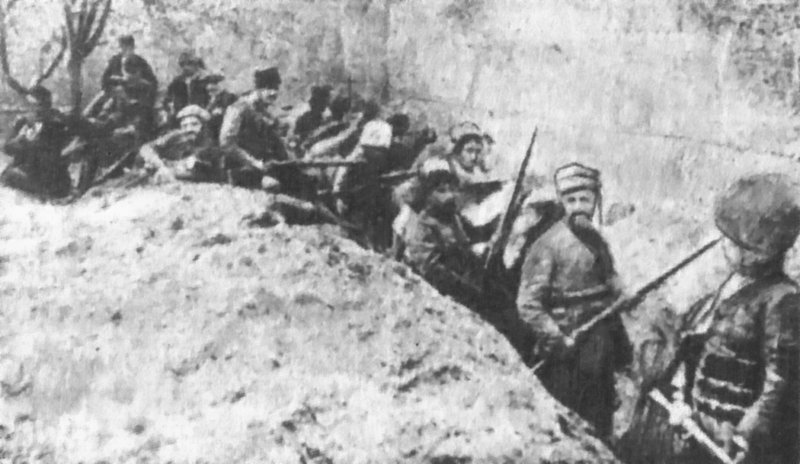 Armenians defending the walls of Van in the spring of 1915. Scanned from the Soviet Armenian Encyclopedia Article on the Defense of Van (vol. 11, p. 273)